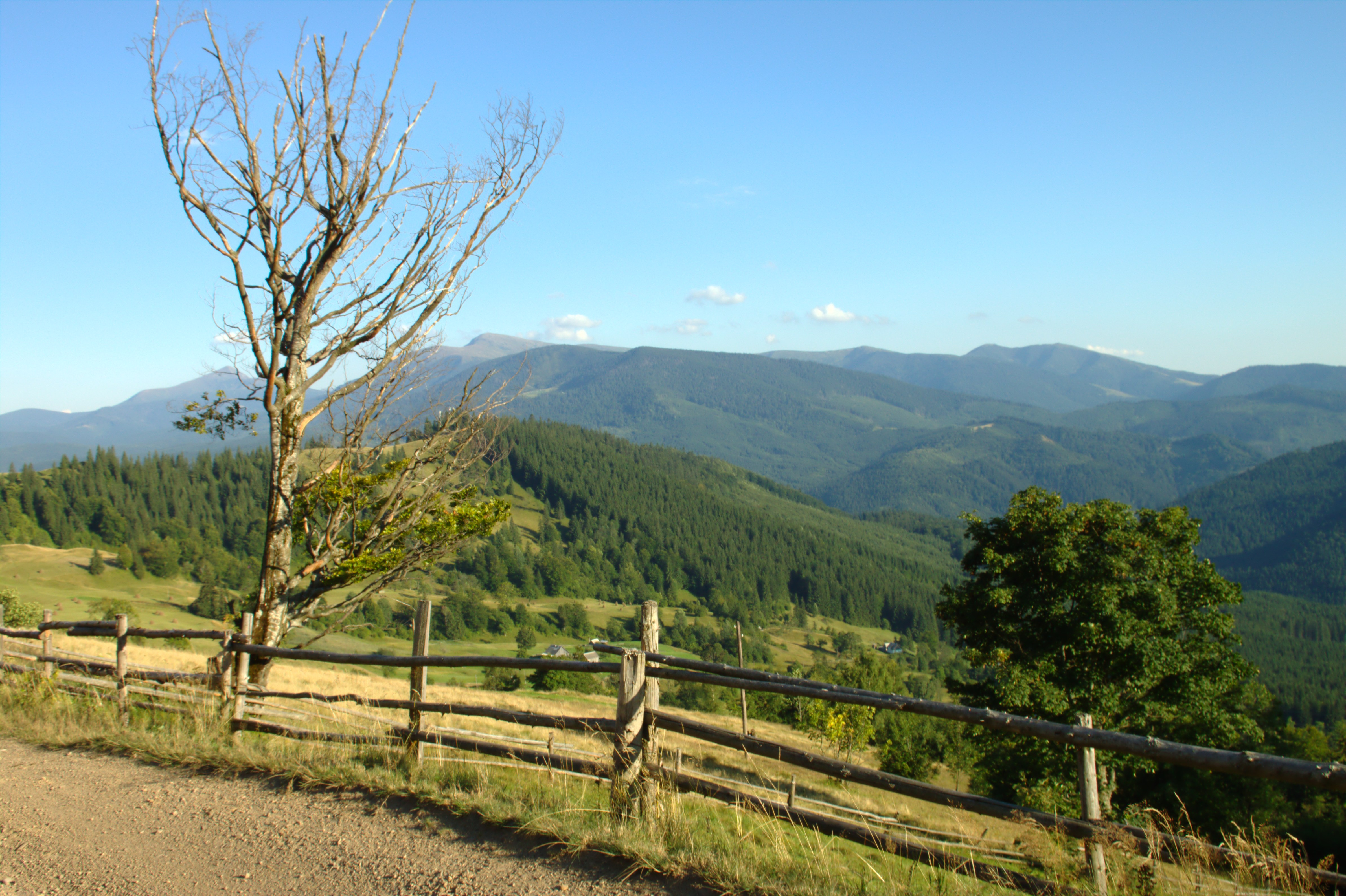 A road to Yasinya from a ski centre, Zakarpattia Oblast, Ukraine